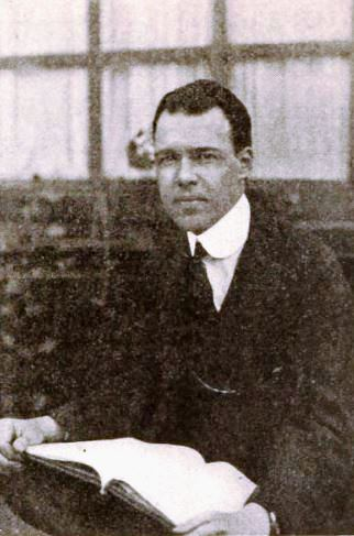 Film director Kenneth Webb, on page 38 of the August 14, 1920 Exhibitors Herald.